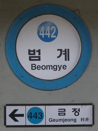 Beomgye Station